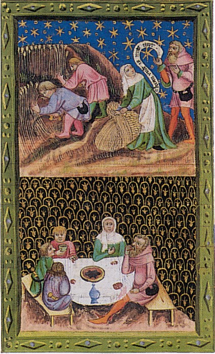 Bible of Wenceslaus IV.